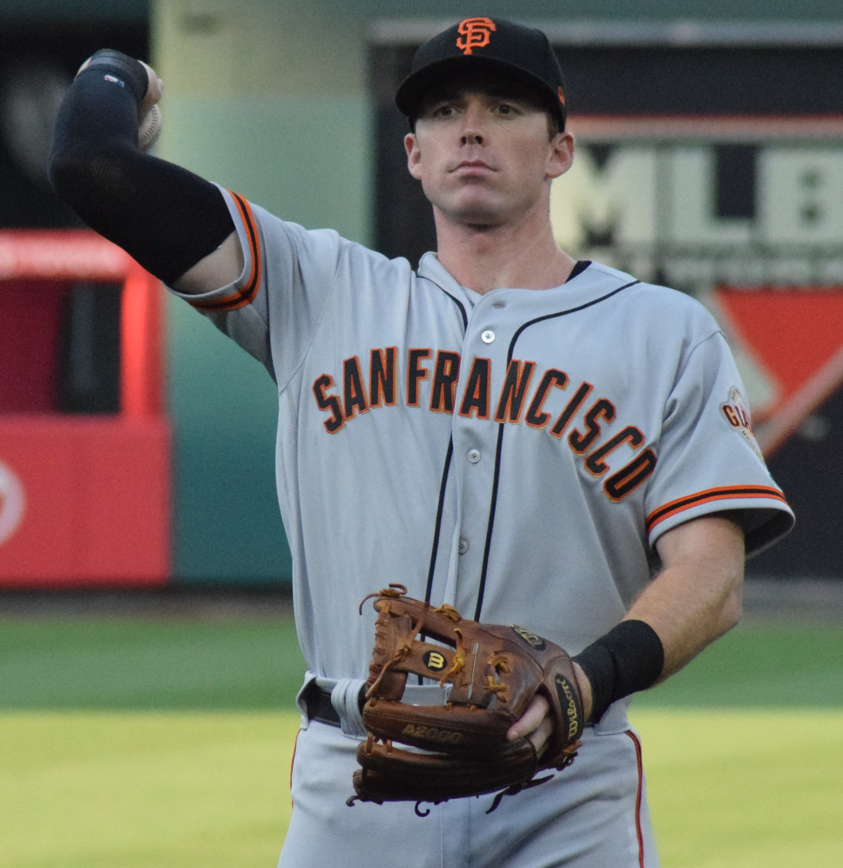 Zach Green with the San Francisco Giants at Citizens Bank Park in Philadelphia in 2019